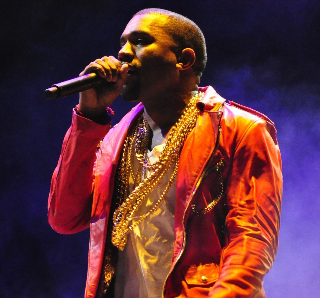 Kanye West performing at Lollapalooza on April 3, 2011 in Santiago, Chile.